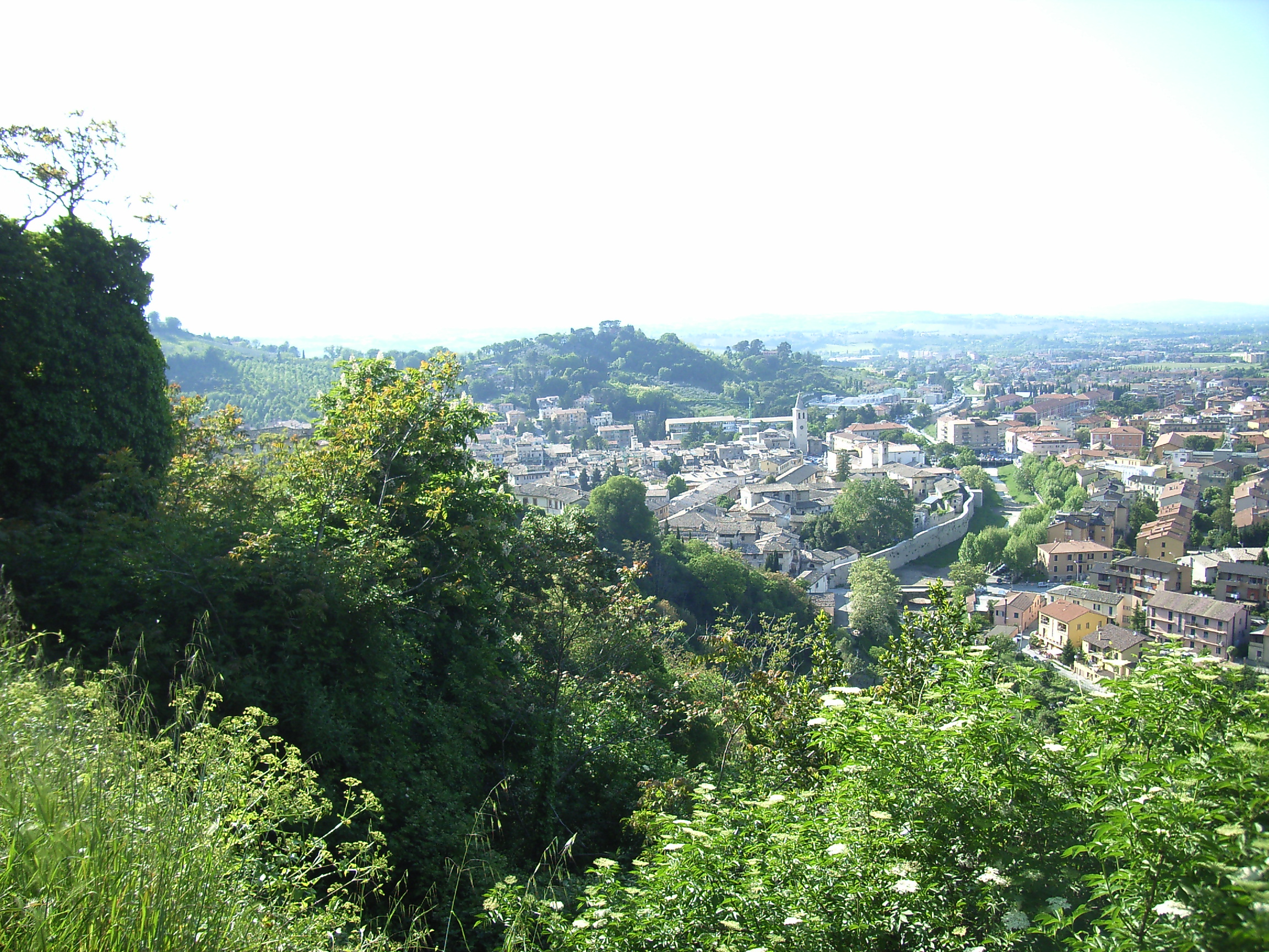 Spoleto (Italy): View of the city